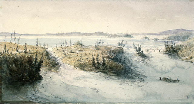 View of the Chaudière Falls at Bytown, 1838.